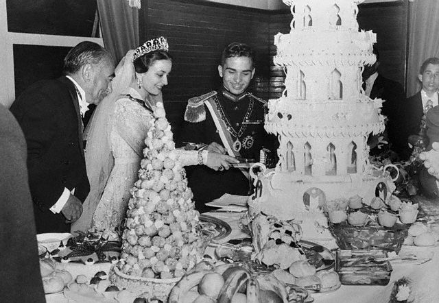 King Hussein of Jordan and Queen Sharifa Dina bint 'Abdu'l-Hamid